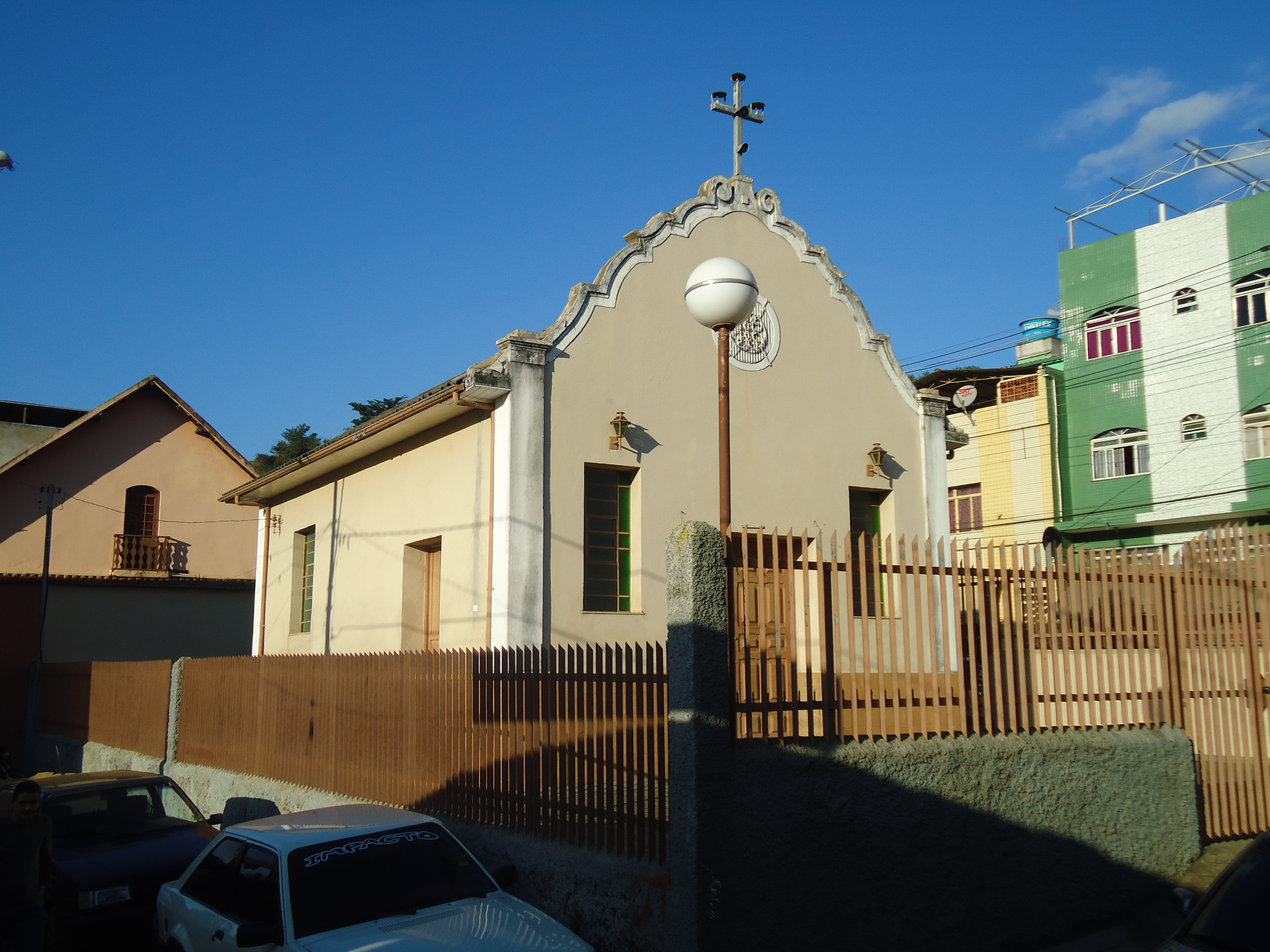 Little church Senhor dos Passos